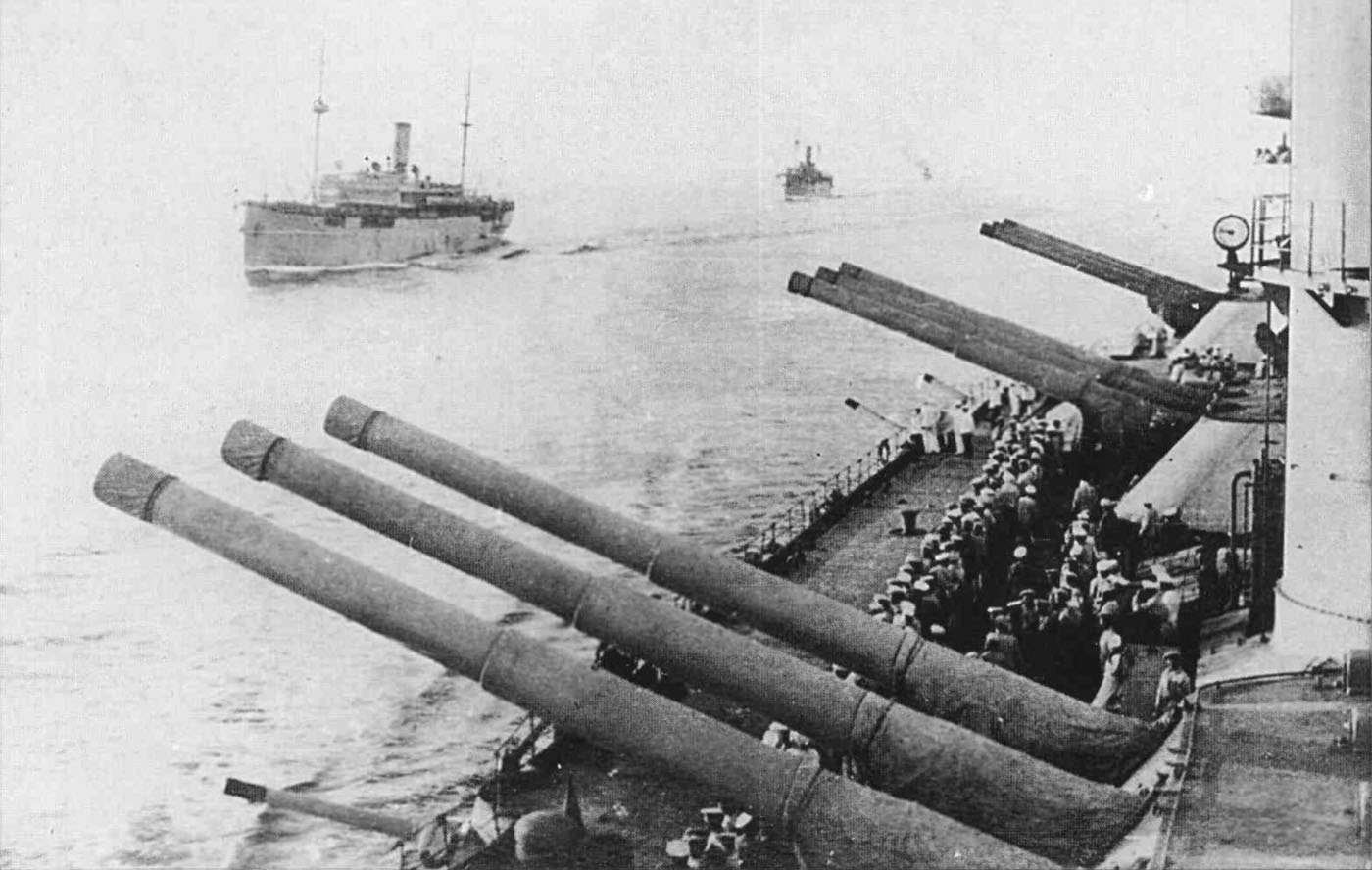 Imperial Russian battleship Imperatritsa Ekaterina Velikaya.